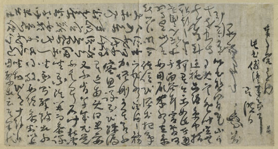 Letter of Seongho YiIk, a Korean Joseon Dynasty's philosopher